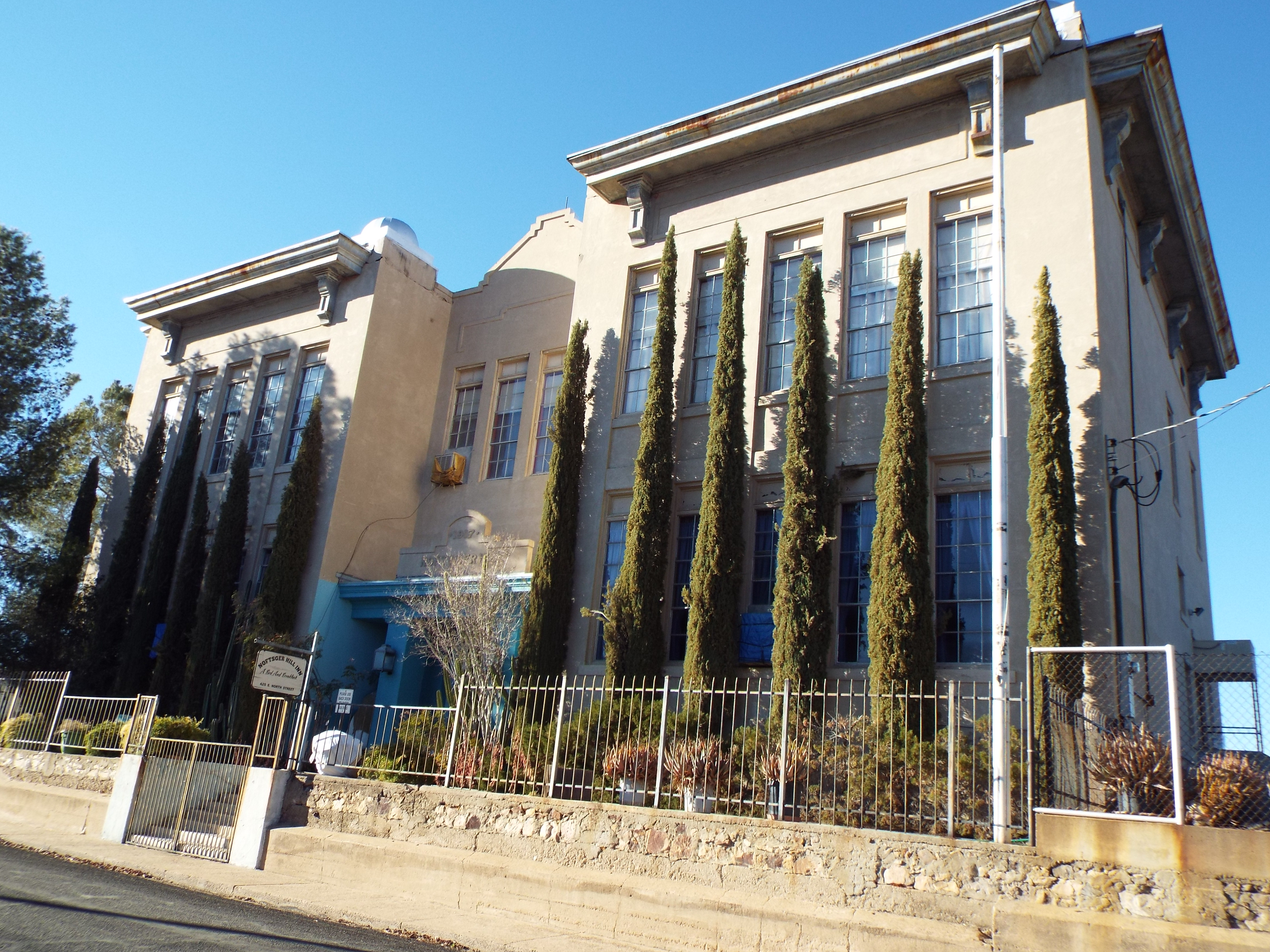 The Noftsger Hill School Built in 1917 and located at 425 E. North Street.